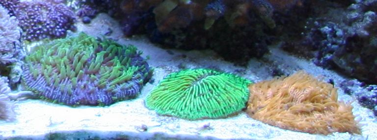 Three different Fungia sp. corals